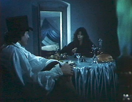 Psyche and Baron Zedlitz